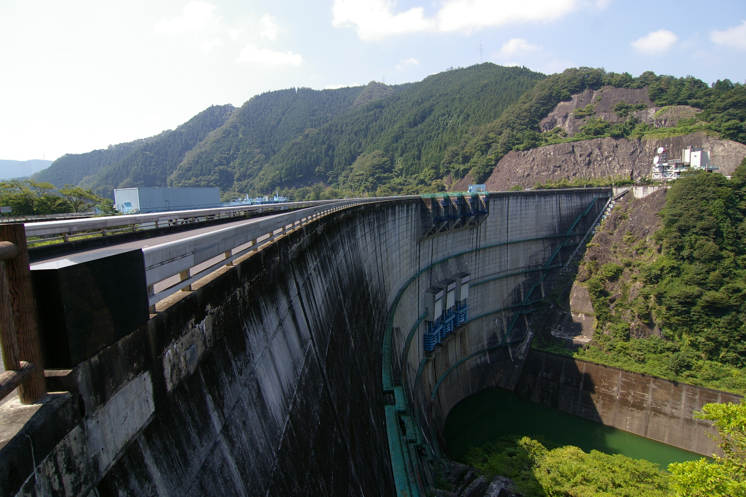 Yahagi Dam (Kushihara, Ena City, Gifu Pref., Japan)